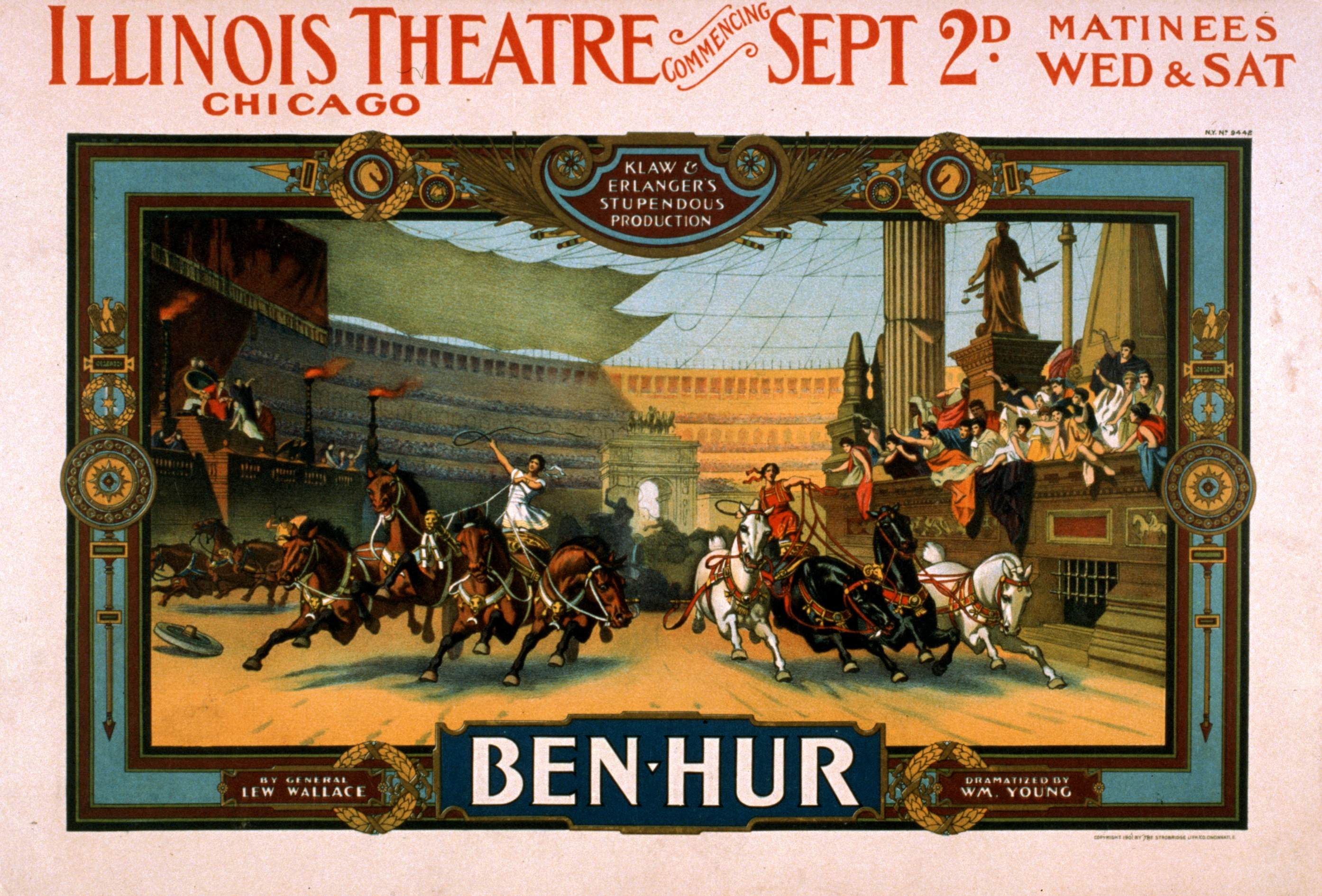 1901 poster for stage production of Ben-Hur, produced by Klaw & Erlanger